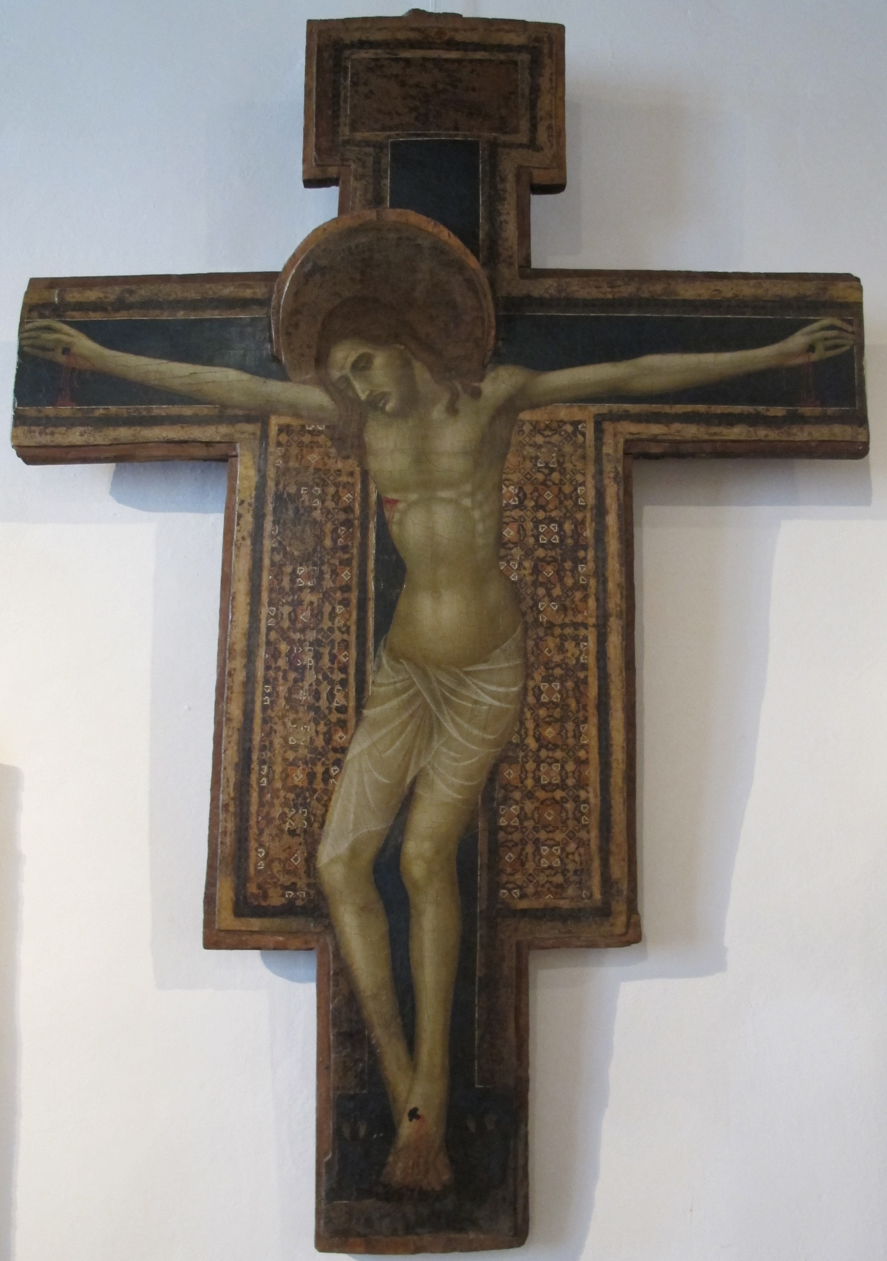 Sculpture in the National Pinacotheque, Siena